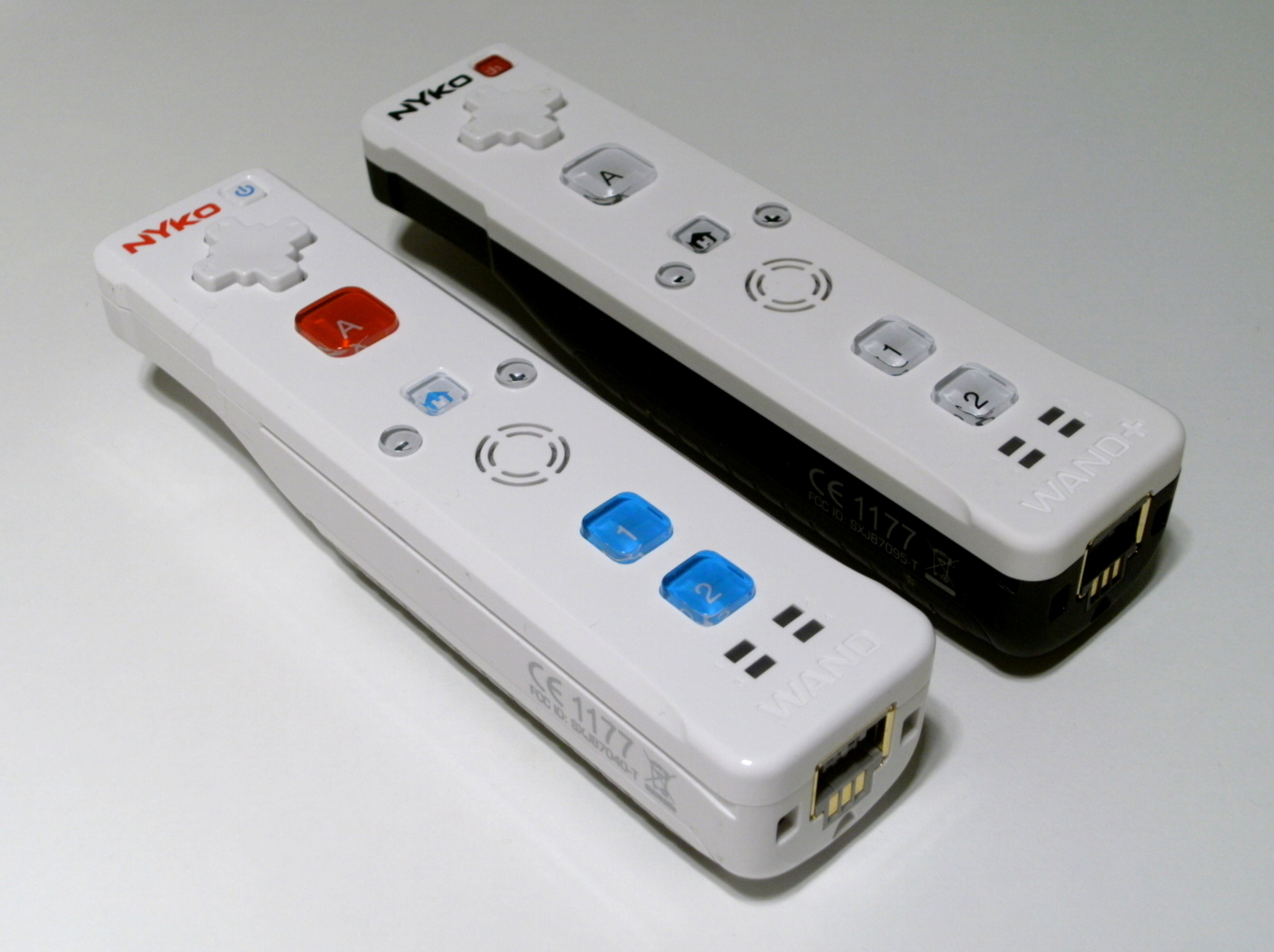 Nyko Wand (left) and Wand+ (right) video game controllers for Wii.